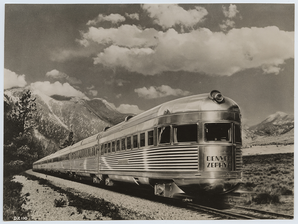 Title: C.B.&Q.R.R., Original 'Denver Zephyr', 'Silver Flash' on Rear Creator: Unknown Date: no date Part of: Everett L. DeGolyer Jr. collection of United States railroad photographs Physical Description: 1 photographic print: gelatin silver; 15 x 19 cm File: ag1982_0232_cbq_car_00230_02_opt.jpg Rights: Please cite Southern Methodist University, Central University Libraries, DeGolyer Library when using this image file. A high-quality version of this file may be obtained for a fee by contacting . For more information, see: Railroads: Photographs, Manuscripts, and Imprints